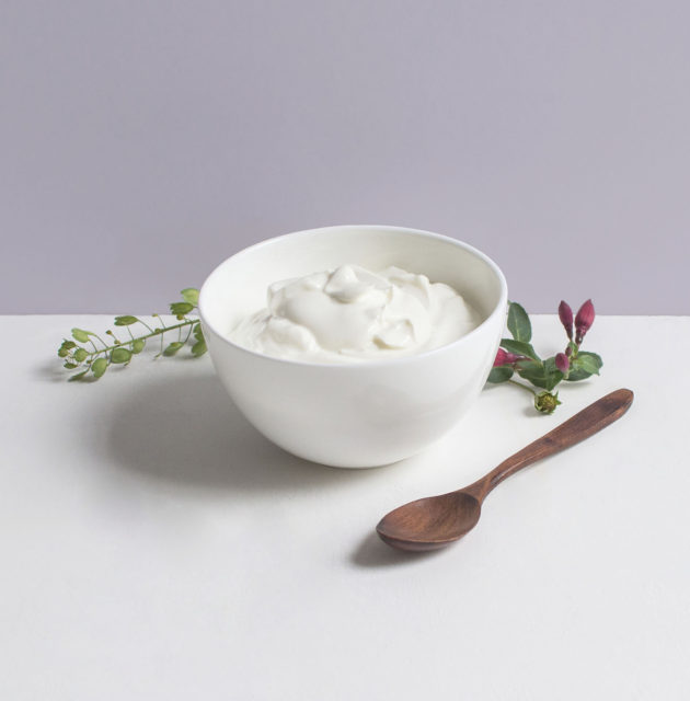 Icelandic Skyr